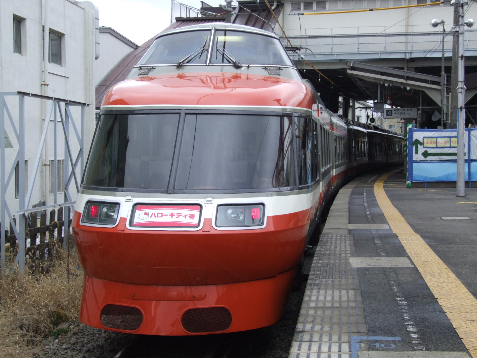 〝Hello Kitty Go〟of Model 7000 -Odakyu RomanceCar LSE-, Odakyu Electric Railway, Japan